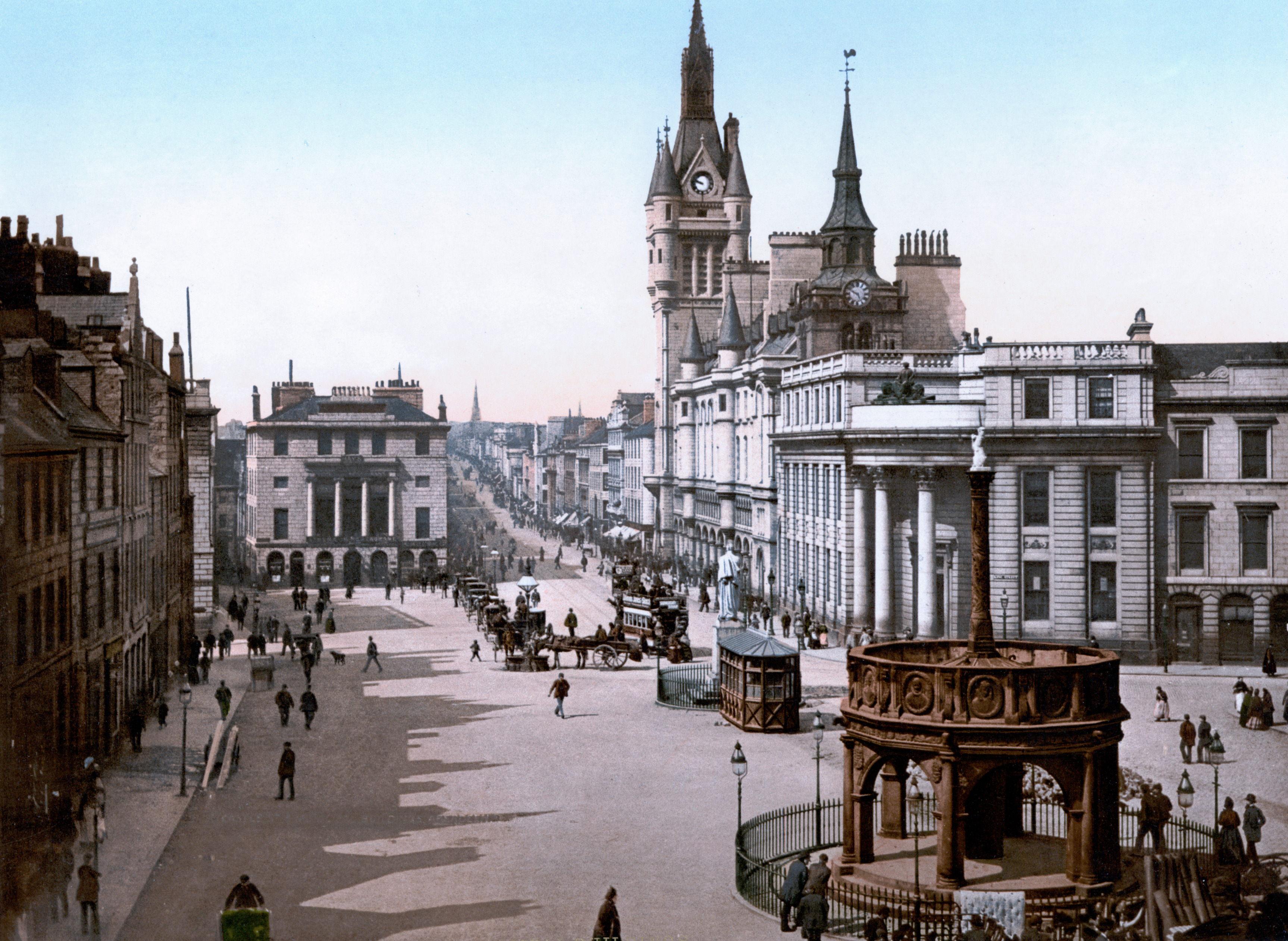 Castle Street and municipal buildings, Aberdeen, Scotland